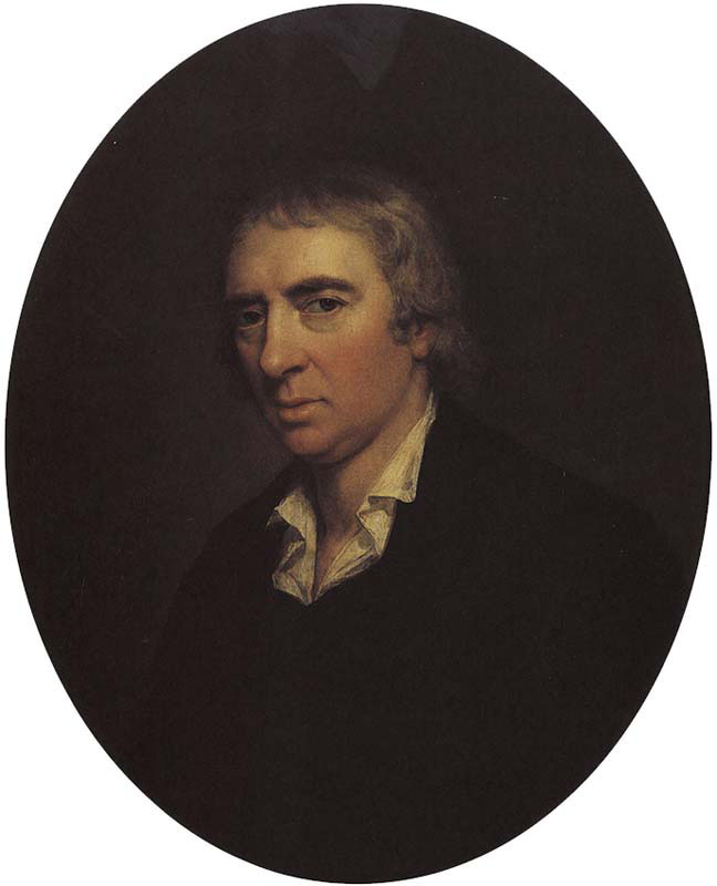 Portrait of Lord Chief Justice of Ireland, Arthur Wolfe (later Viscount Kilwarden).